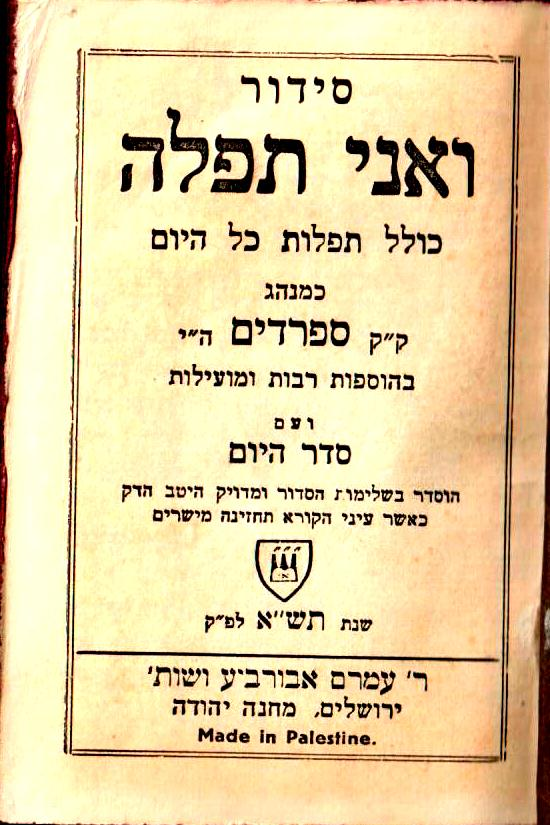 Siddur V'Ani Tefilah Rabbi Amram Aburbeh & Co. Jerusalem, Mahane Yehudah 1941. The siddur includes all Tefilot prayers Sepahrdic communities tradition. Made in Palestine.